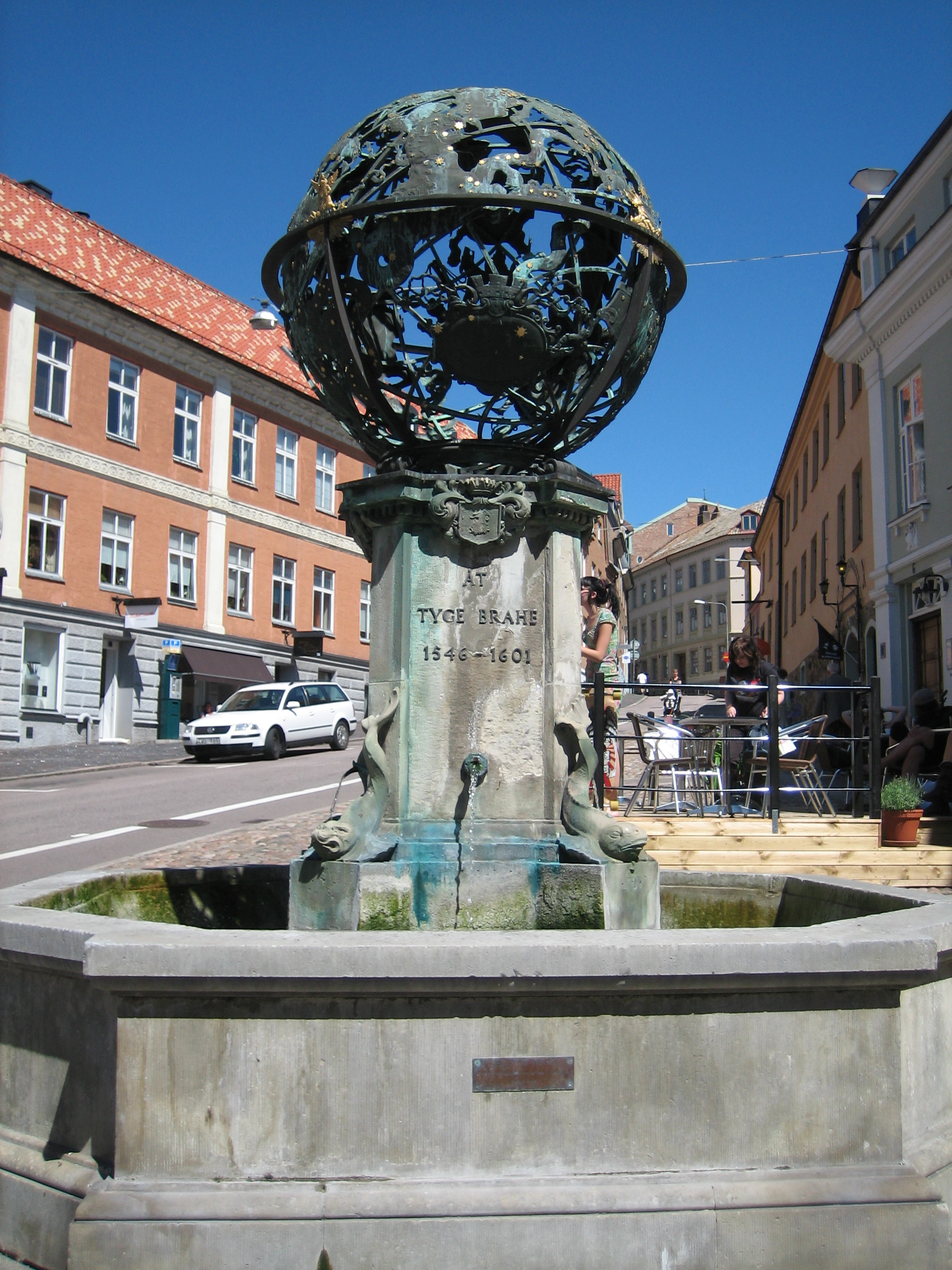 "Tycho Brahe's well" by artist Astrid Aagesen and architect G W Widmark 1927. Placed in Helsingborg, Skåne, Sweden in memory of Tycho Brahe (1546-1601).